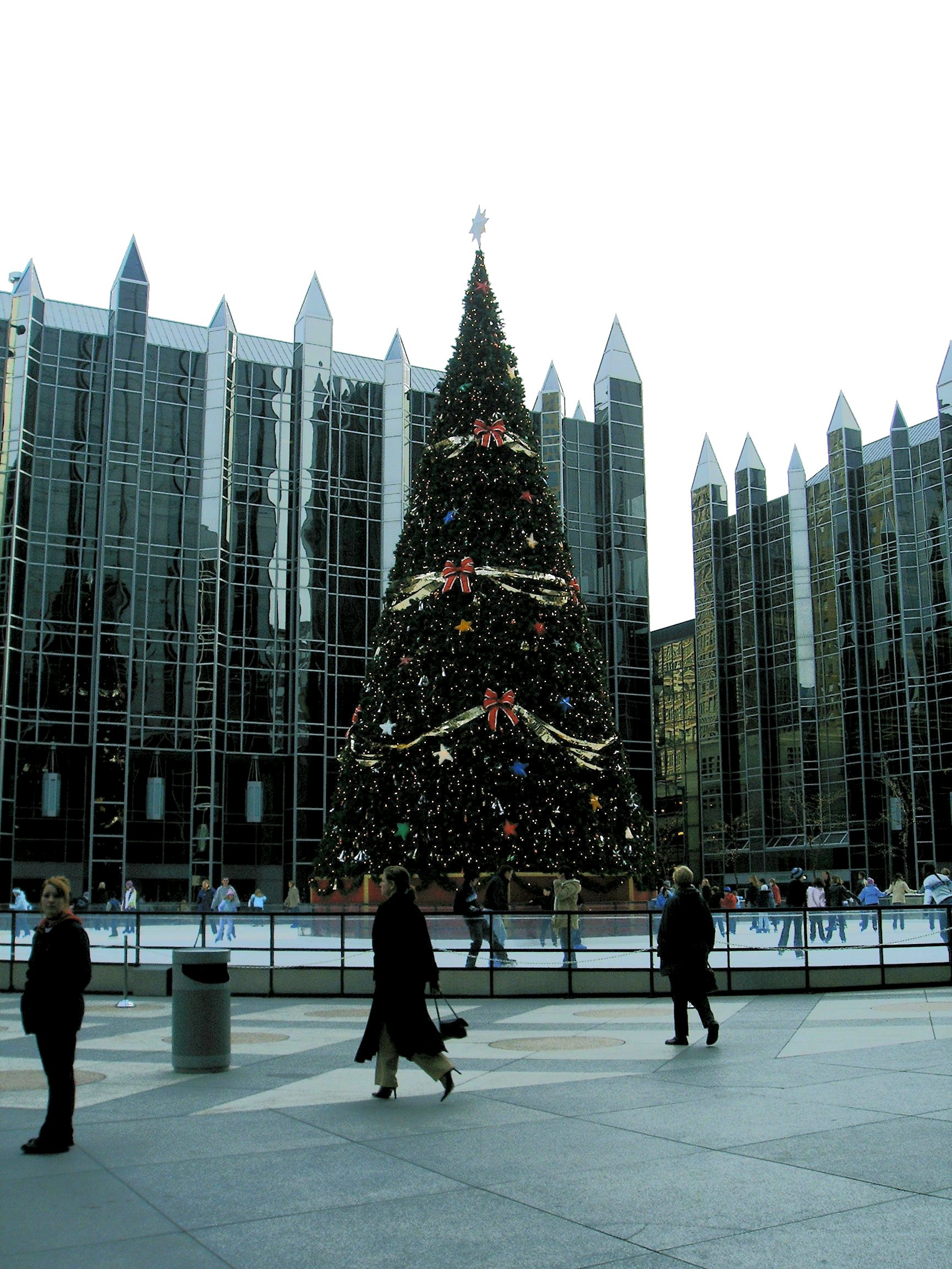 PPG Place & ice rink Category:Images of Pittsburgh, Pennsylvania